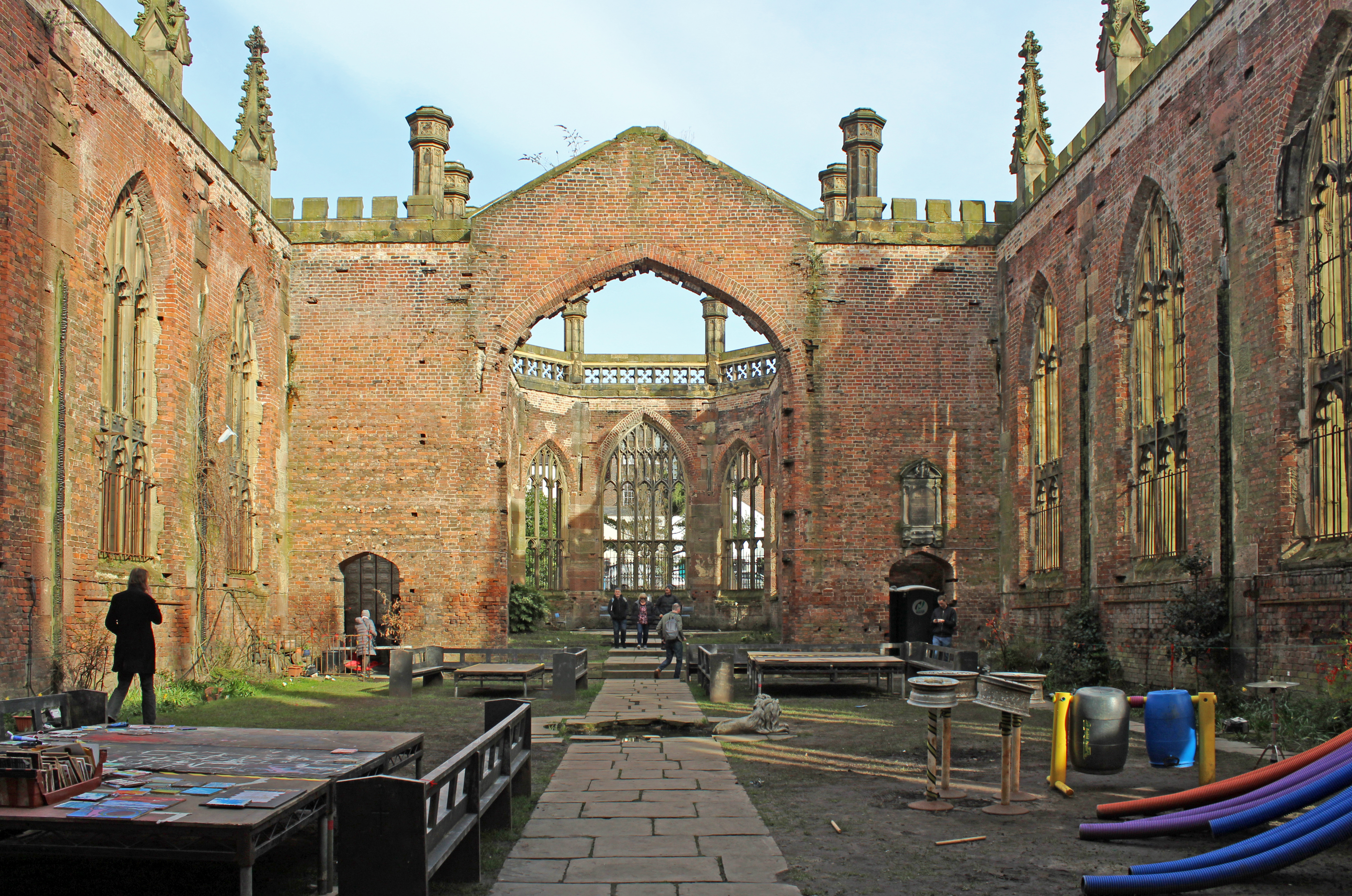 View eastward along the nave. St Luke's. Known as "the bombed out church" was badly damaged in the blitz of May 1941 and is preserved as a memorial, doubling as an arts centre holding exhibitions and other events. It is a Grade II listed building.